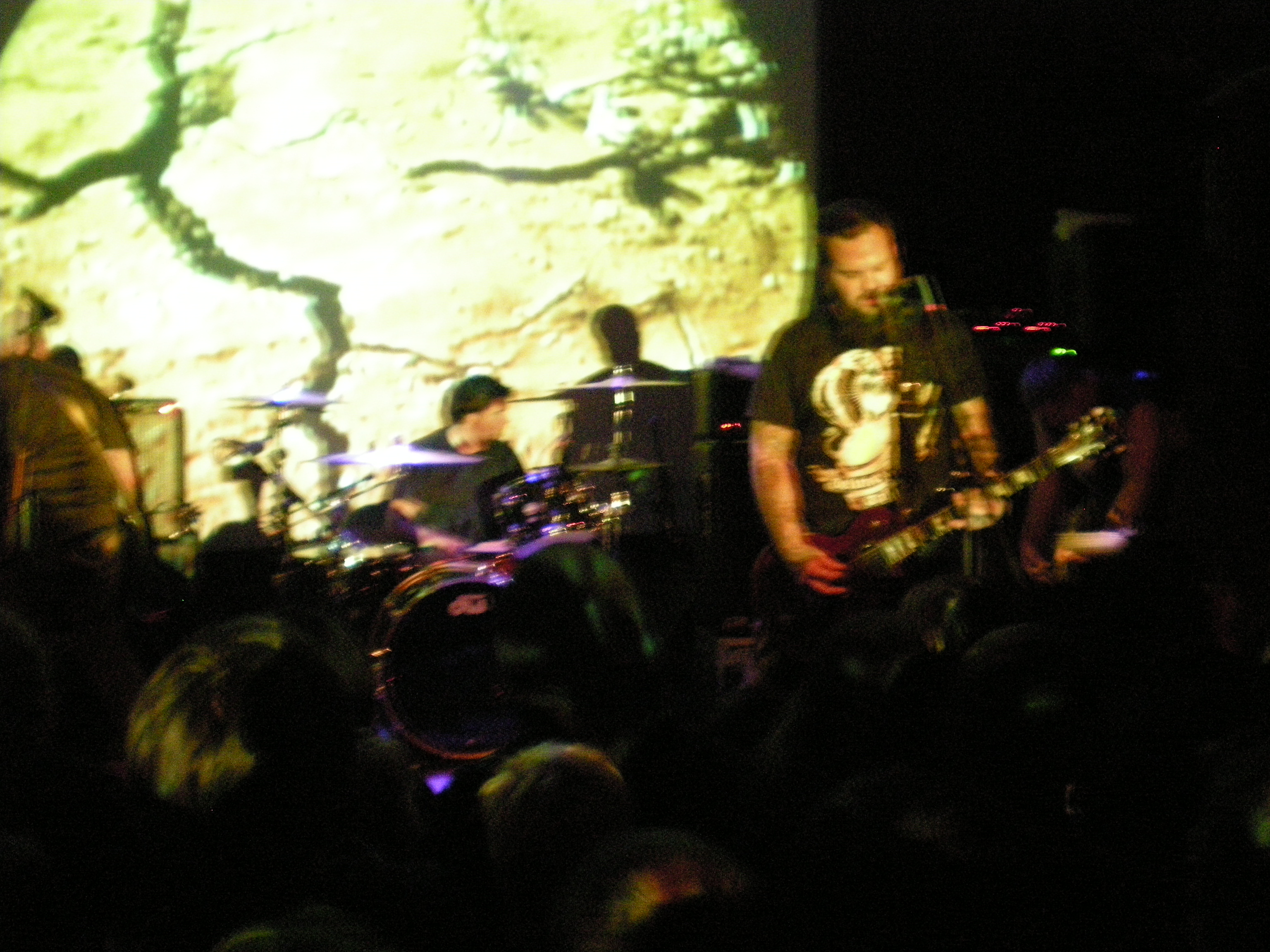 The band Neurosis playing at Neumo's in Seattle, Washington.